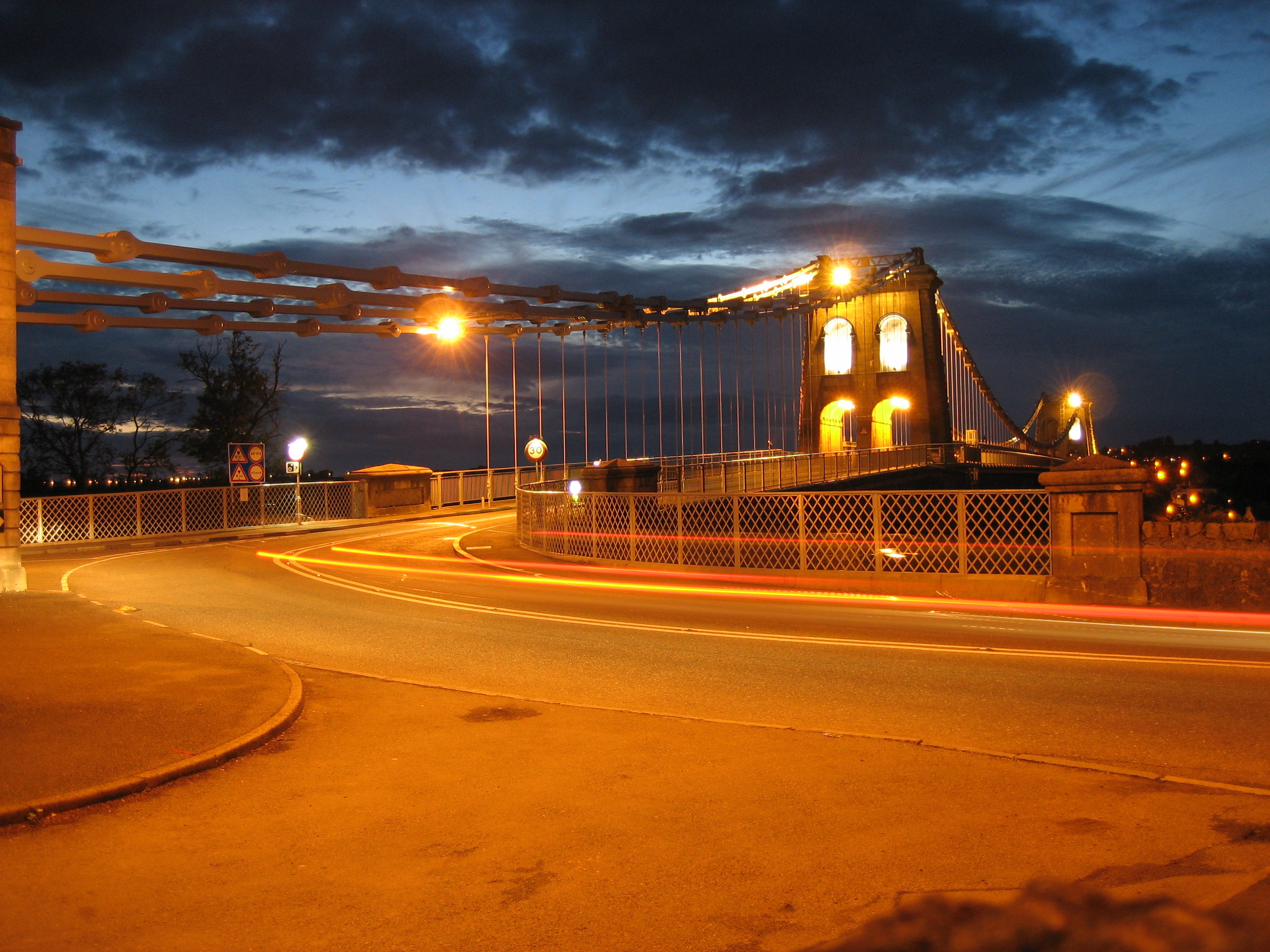 This is a 2.5 second exposure of Menai Suspension Bridge in Wales using a Canon Digital IXUS 55.